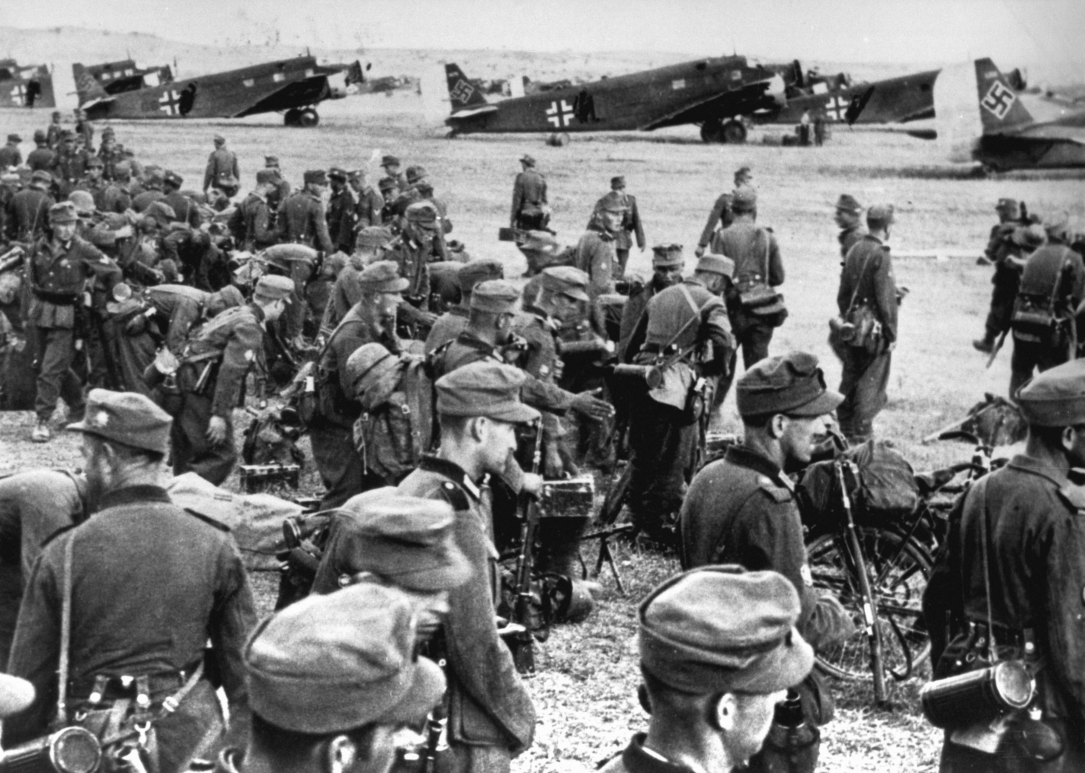 German Mountain troops before departure to Crete Fotograf: Scherl Bilderdienst. Se flere billeder her: Download and rights: More about The Museum of Danish Resistance (Frihedsmuseet)